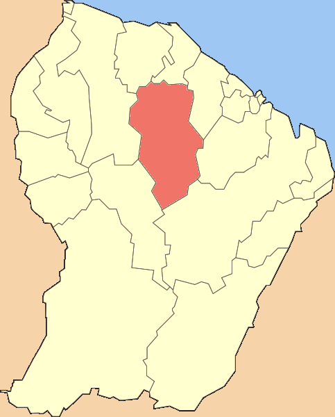 Made map myself.